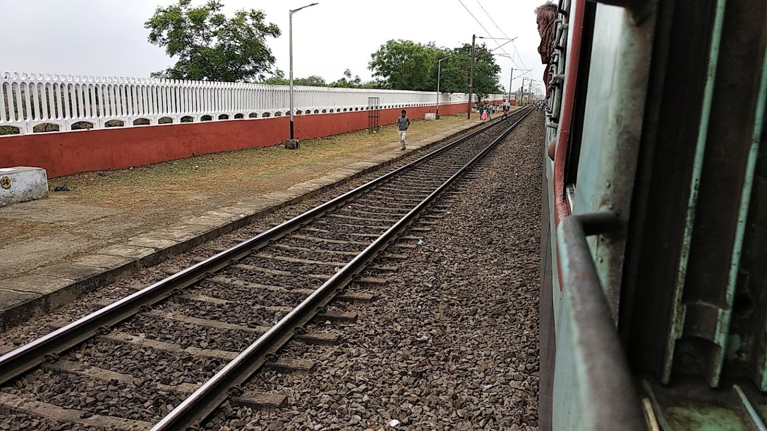 This is the Picture of Kuhuri railway station